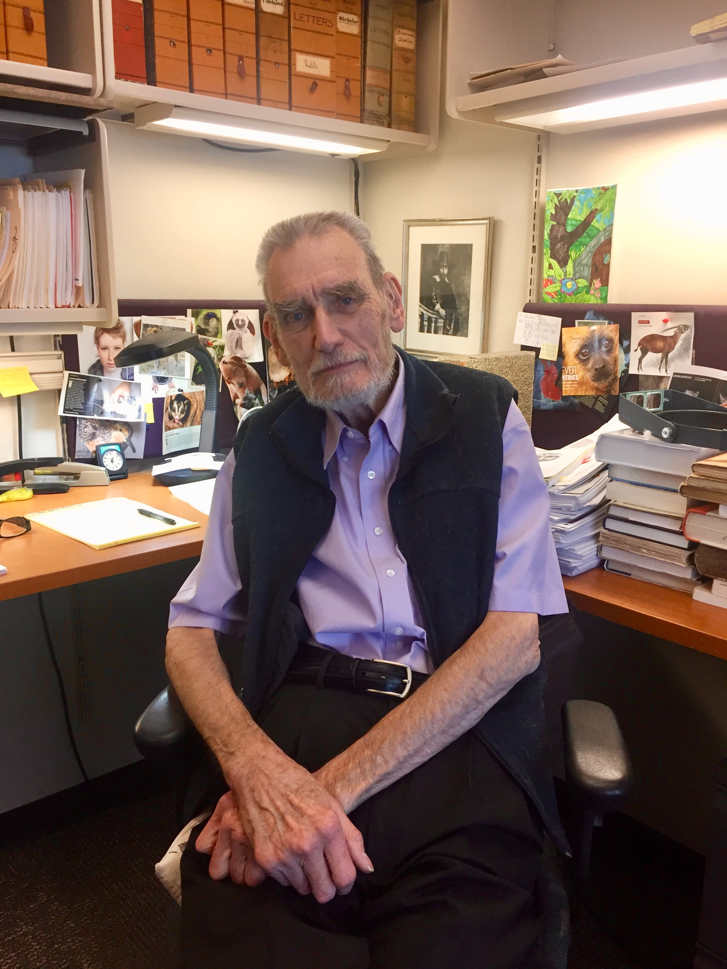 Dr. John Opitz in his office at the University of Utah (December 2017)